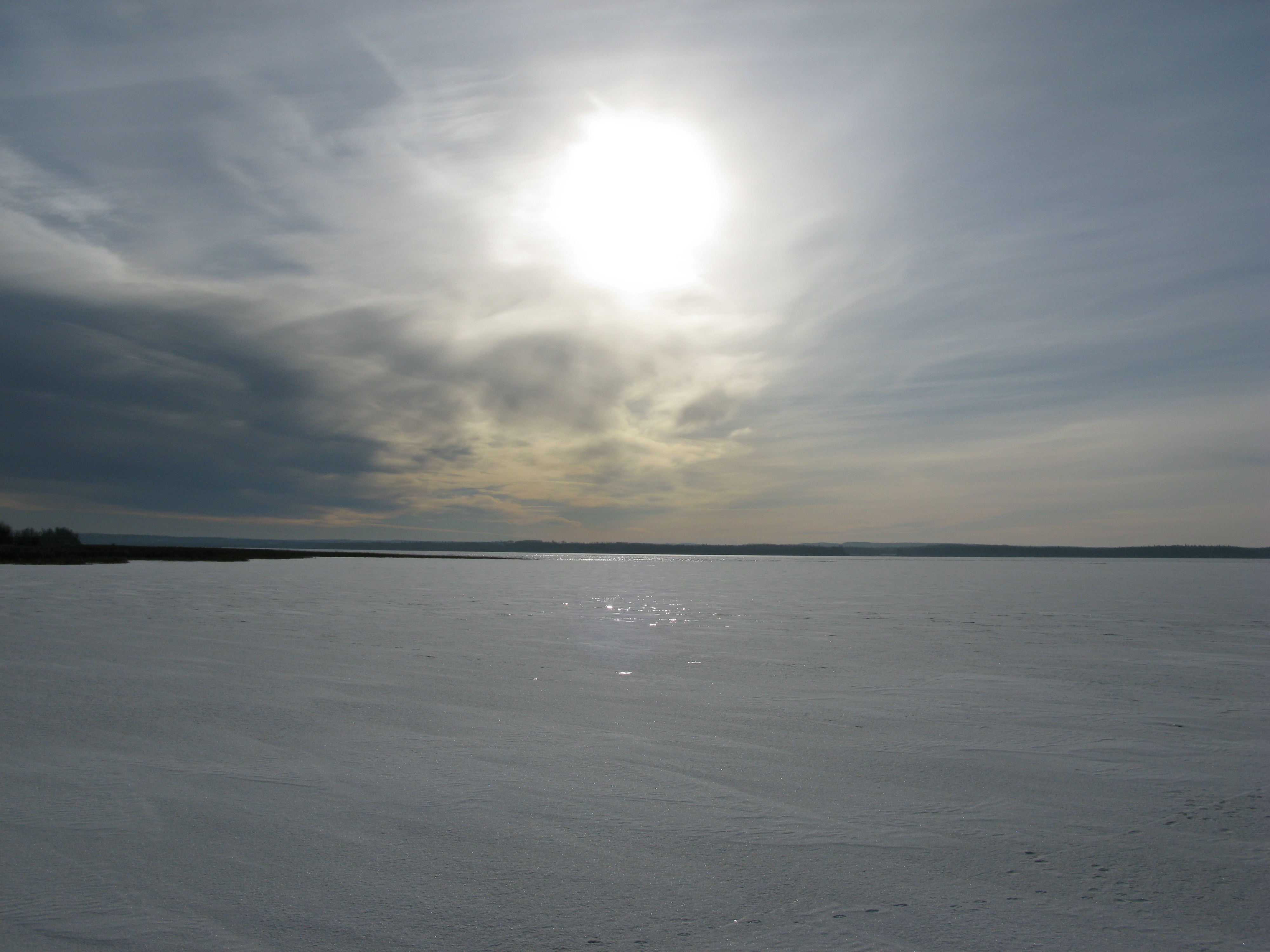 ChipLakeAlberta